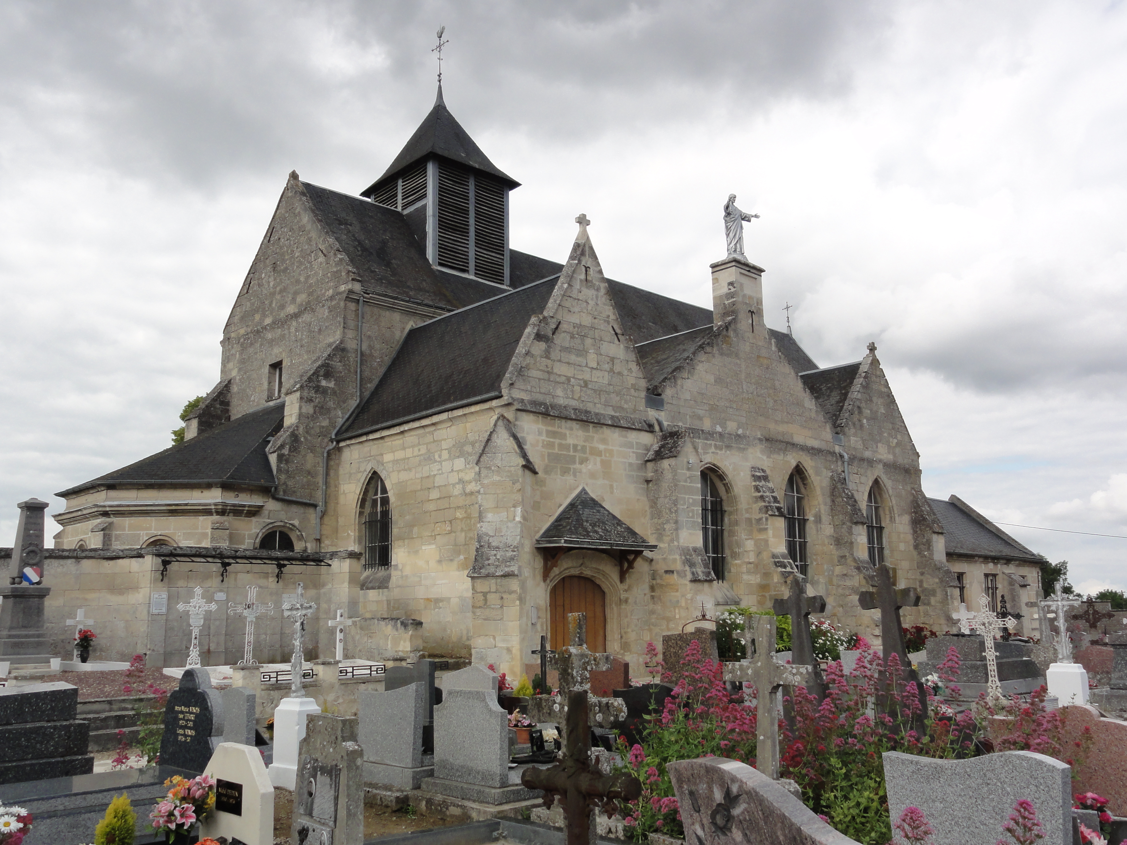 Saint-Paul-aux-Bois (Aisne) église